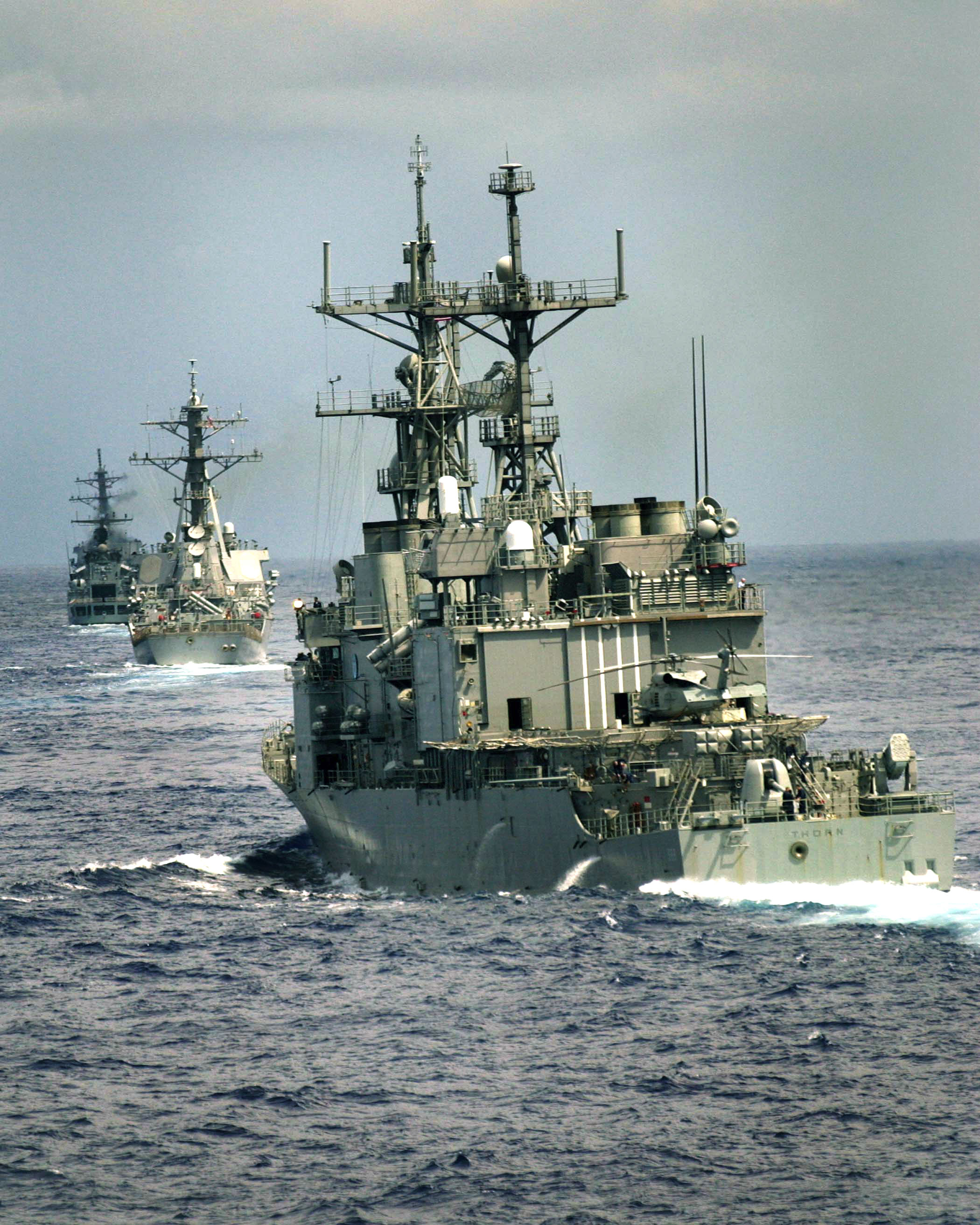 Atlantic Ocean (Sept. 5, 2003) -- Enterprise Carrier Strike Group ships, USS Thorn (DD 988), USS Cole (DDG 67), and USS Gonzalez (DDG 66), perform divisional tactics while underway in the Atlantic Ocean. The guided missile destroyers are conducting work-ups before an upcoming six-month deployment. U.S. Navy photo by Photographer's Mate 2nd Class Aaron Peterson. (RELEASED)